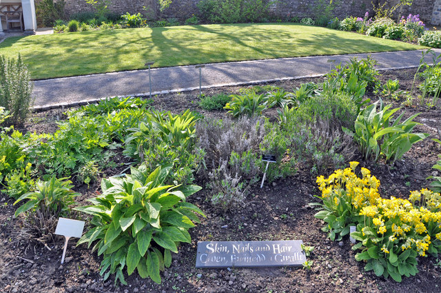 The Physic Garden - Cowbridge One of the plant beds, this one exhibiting plants beneficial to the skin, nails and hair.